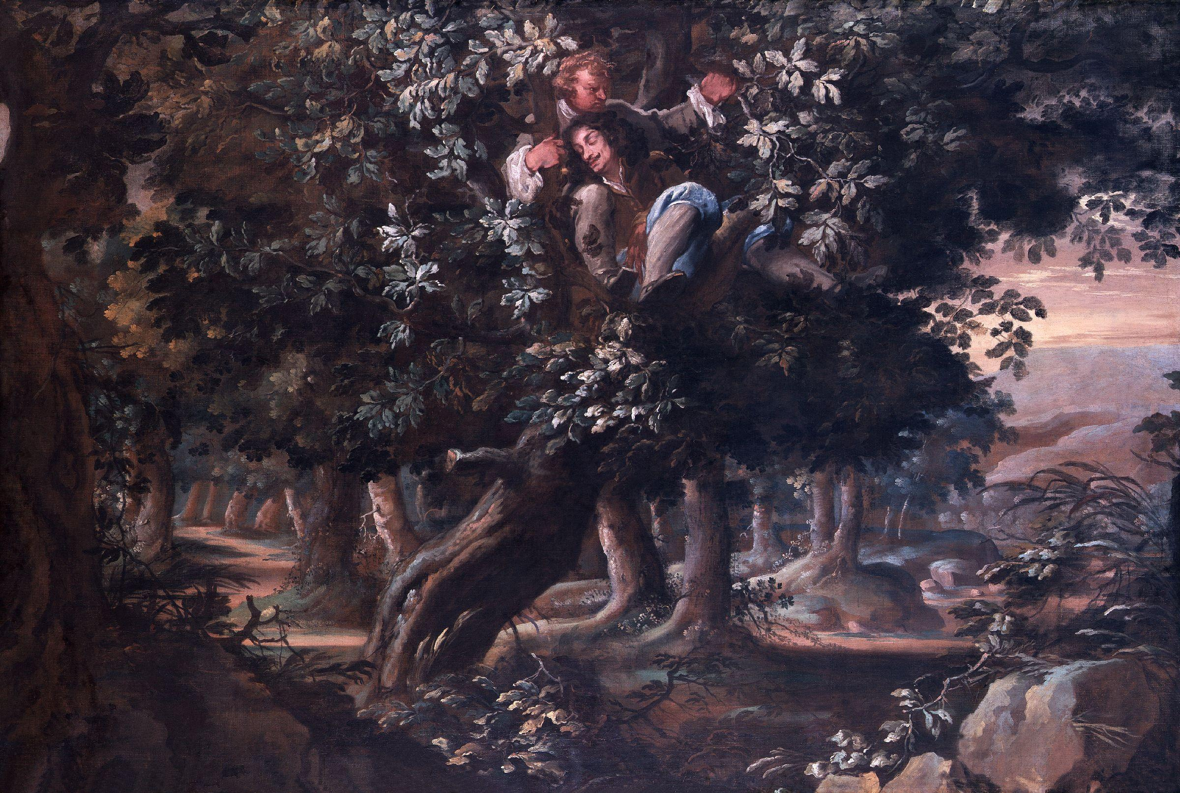 King Charles II and Colonel William Carlos in the Royal Oak, by Isaac Fuller (died 1672). All images in this batch have been confirmed as author died before 1939 according to the official death date listed by the NPG.